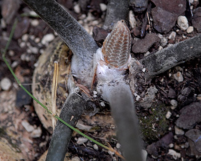 Stangeria Eriopus Cone with the typical hair which gave it its name